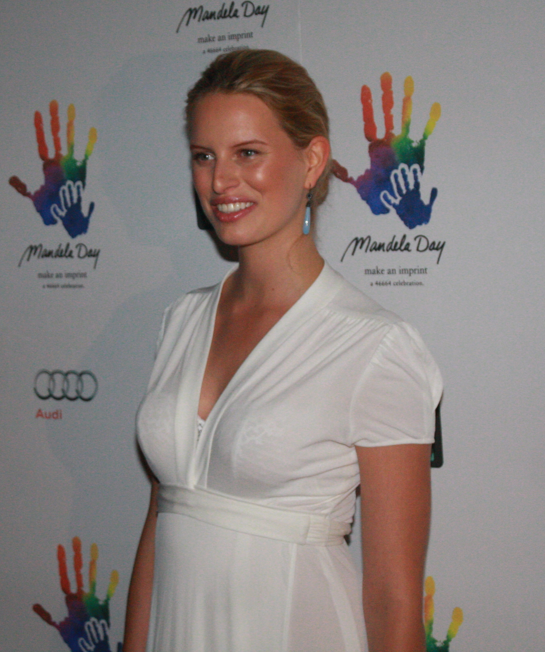 Karolina Kurkova, New York City 2009